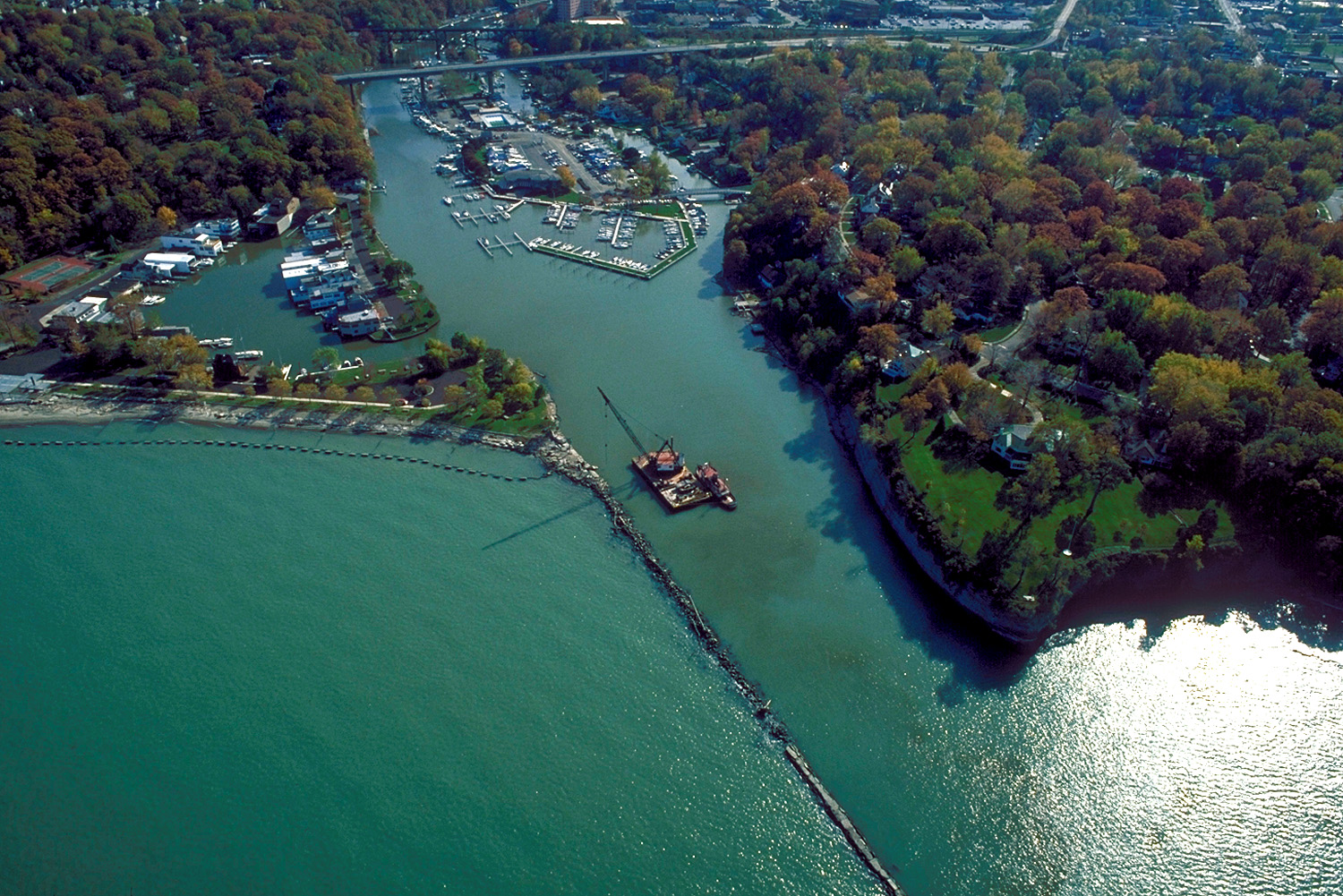 Aerial view of the harbor and river entrance at Rocky River, Ohio, USA on Lake Erie. The major highway U.S. Route 6 crosses the inlet on a bridge at the top of the picture. A derrick boat of the U.S. Army Corps of Engineers is working on the breakwater. View is to the south.